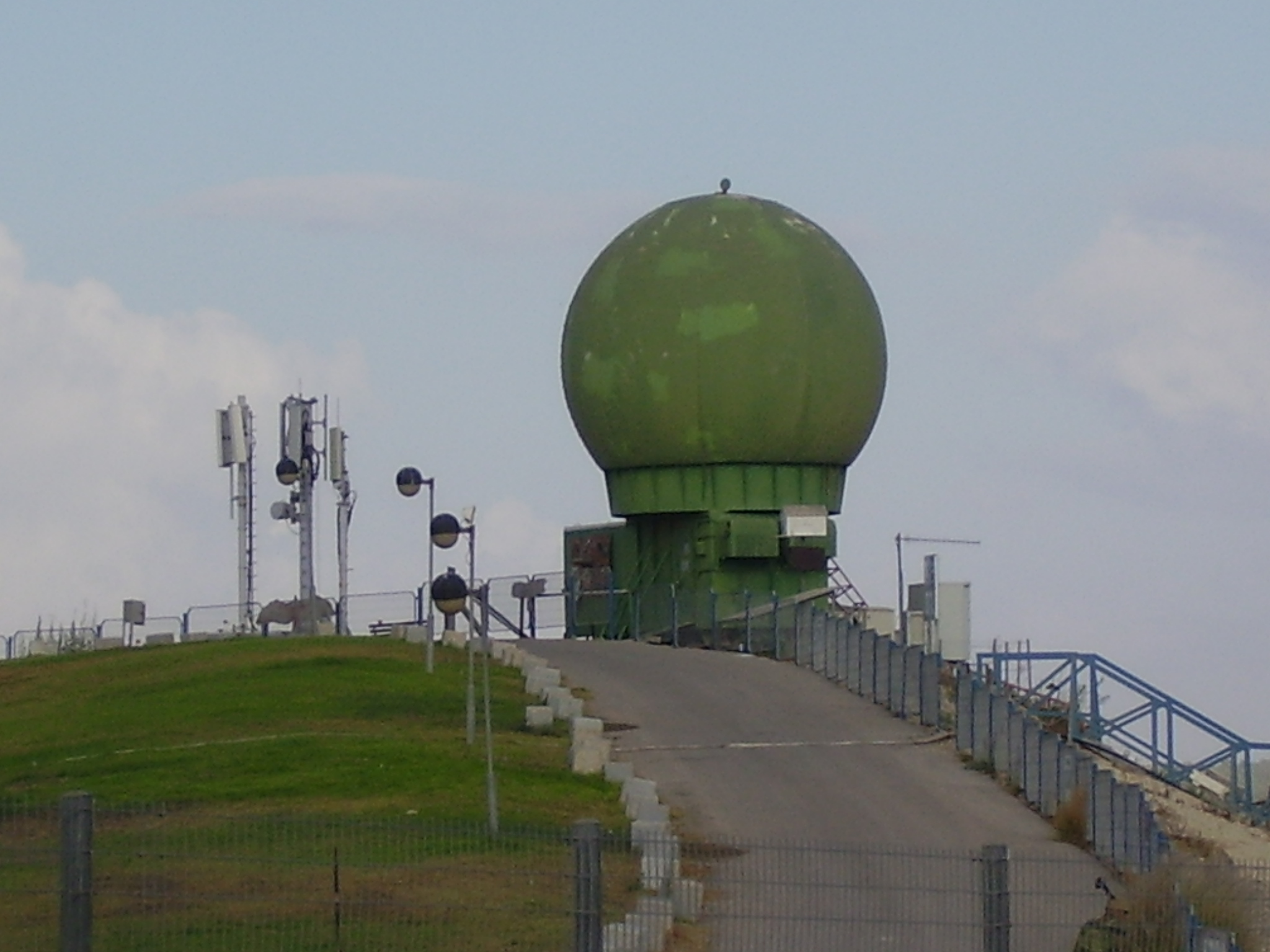 radar for birds migration in latrun